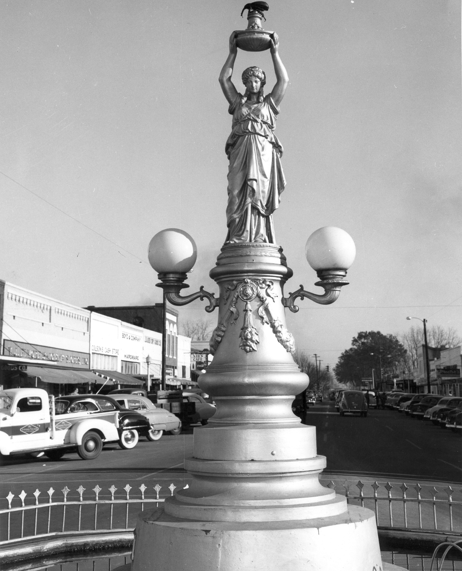 The Boll Weevil Monument in Enterprise, Alabama. "After the boll weevil destroyed (1910-15) the area's cotton, locals began diversified farming. In gratitude for the resulting prosperity, the city erected a monument to the boll weevil in 1919." [from The Columbia Encyclopedia, 3rd ed., s.v. Enterprise."] Series VII.1, Photographs, Box 7.1/3, file "II. Photographs--Boll Weevil Monument, Alabama," USDA History Collection, Special Collections, National Agricultural Library.